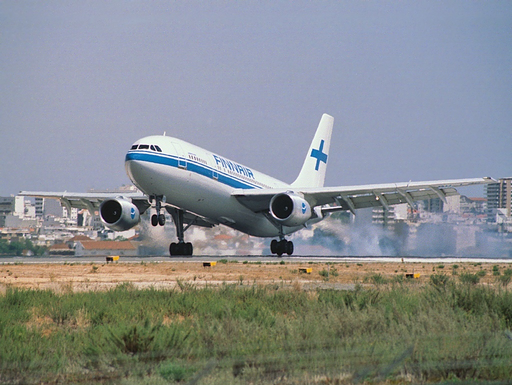 An Airbus A300B4-203FF aircraft (OH-LAB) of Finnair at Faro Airport (FAO/LPFR)